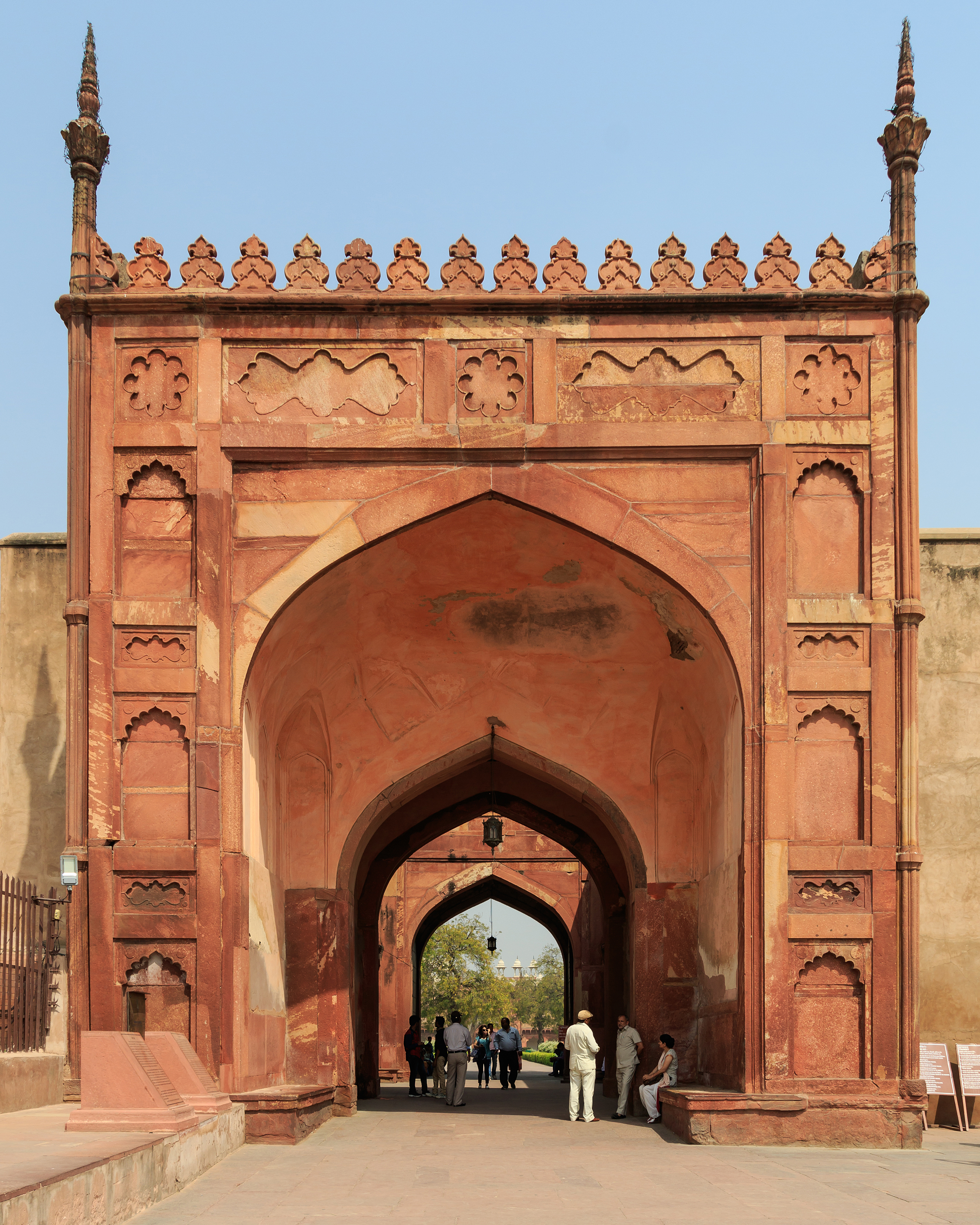 Agra Fort in Agra, India.